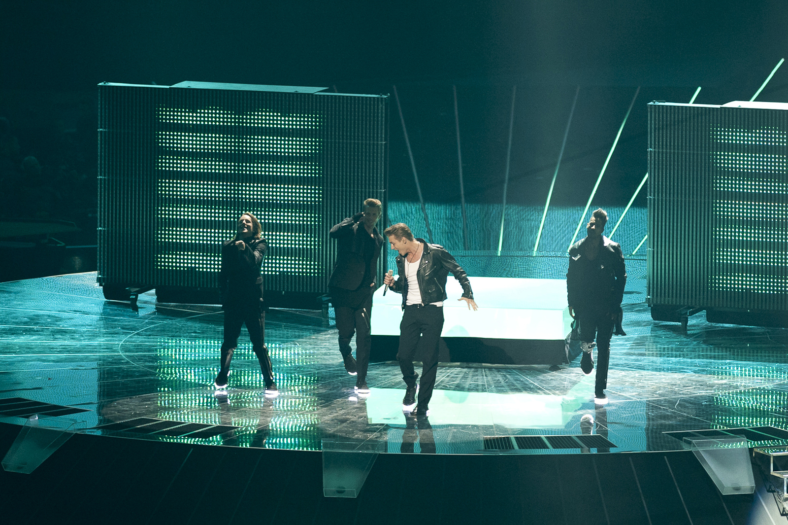 Alexey Vorobyov from Russia performing "Get You" at Eurovision Song Contest 2011 in Düsseldorf